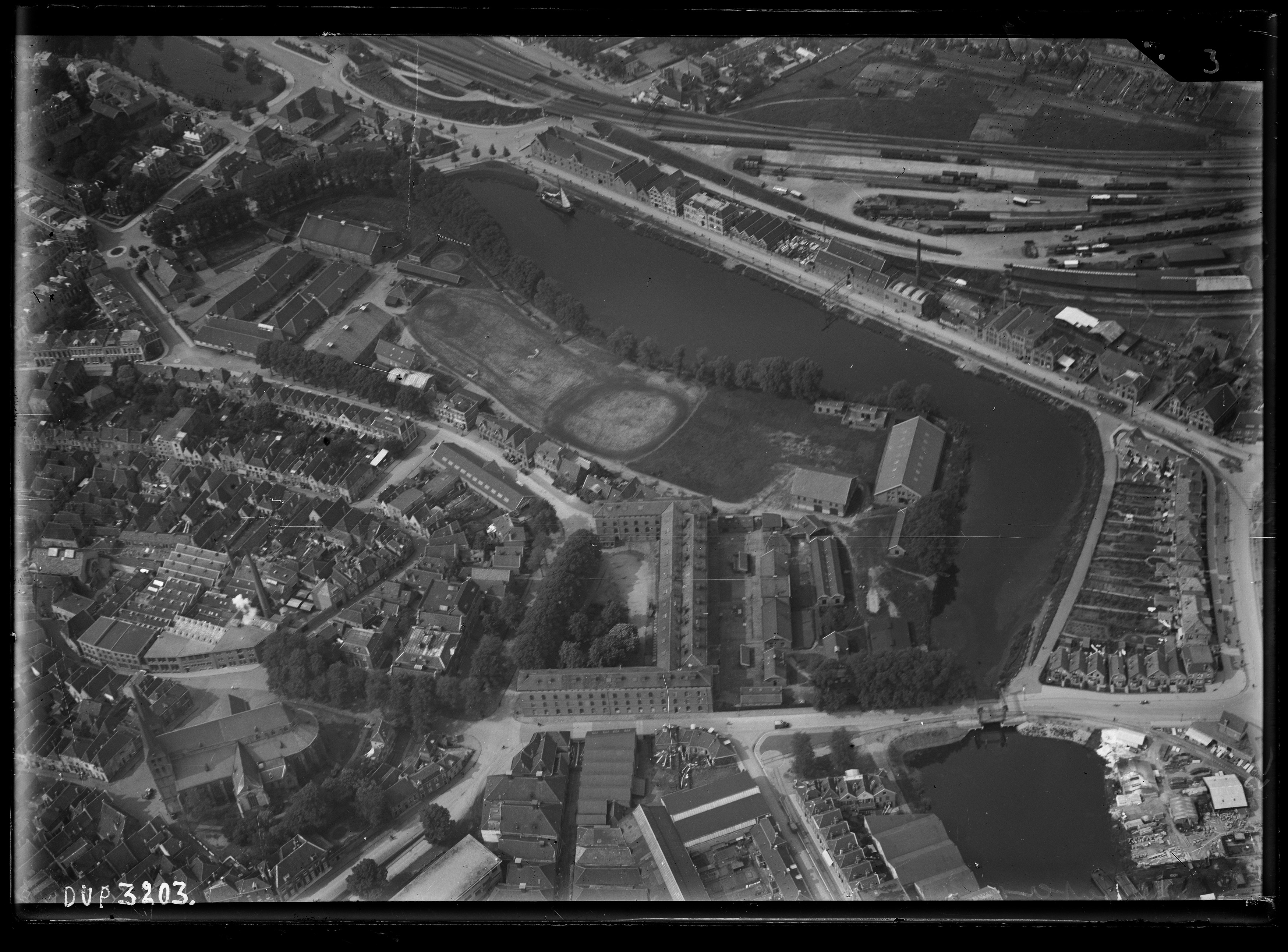 Aerial photograph of Deventer, The Netherlands